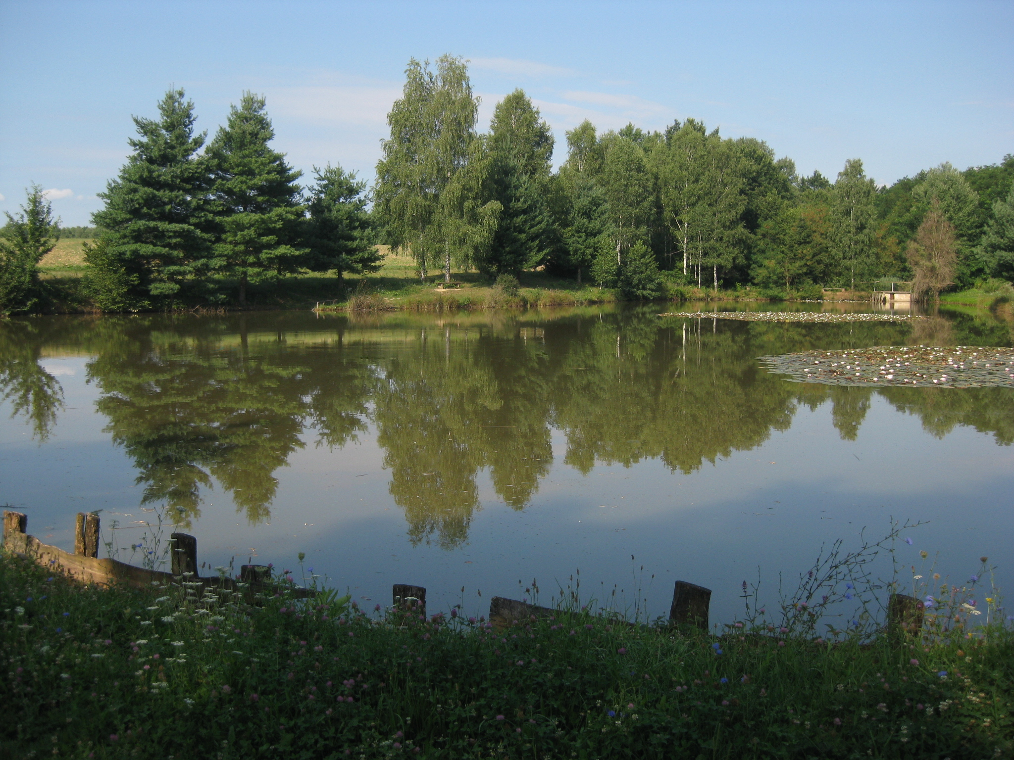 Prilozje pond, Slovenia